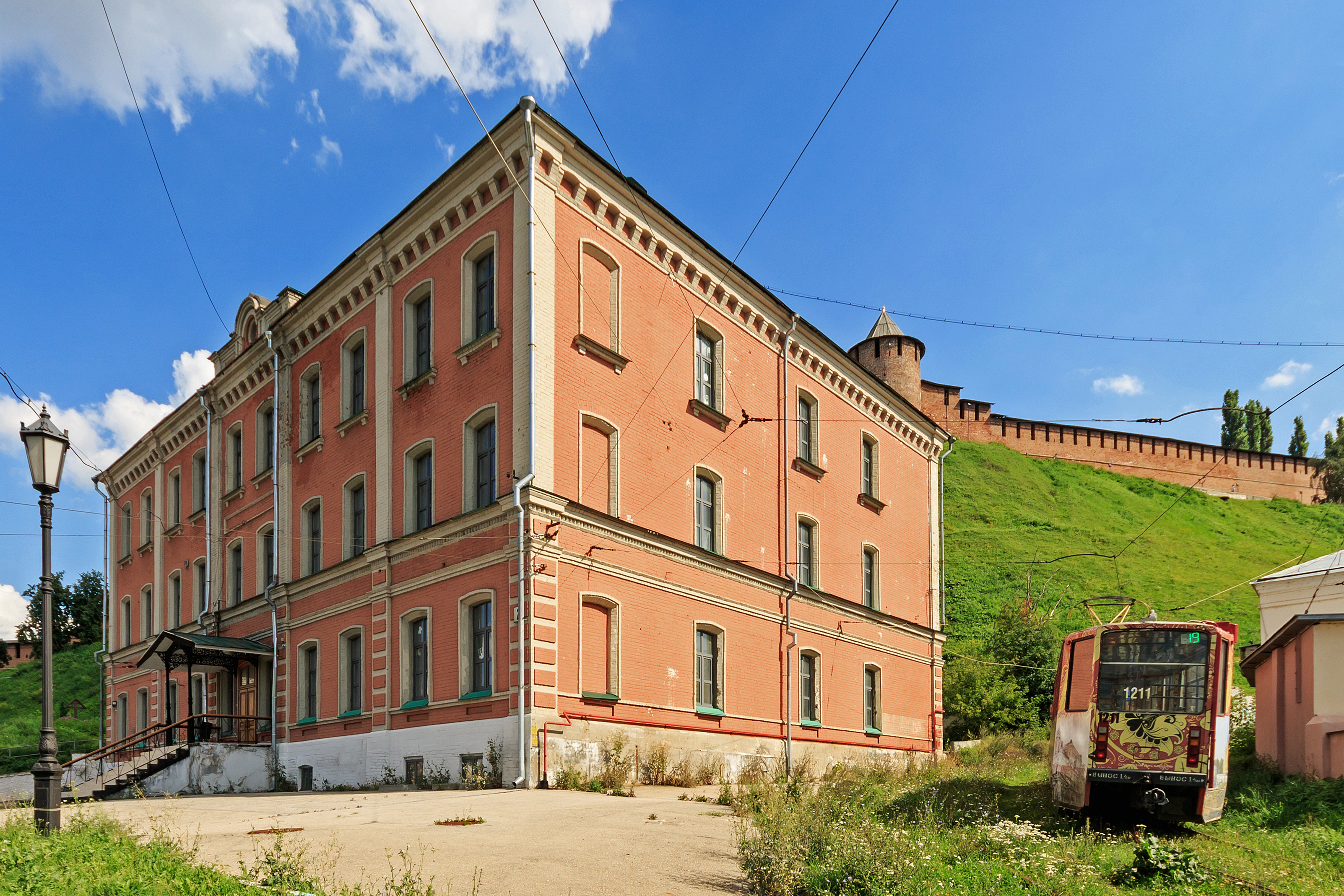 Building at 2, Rozhdestvenskaya Street (Former Bugrov Shelter) in Nizhny Novgorod, Russia